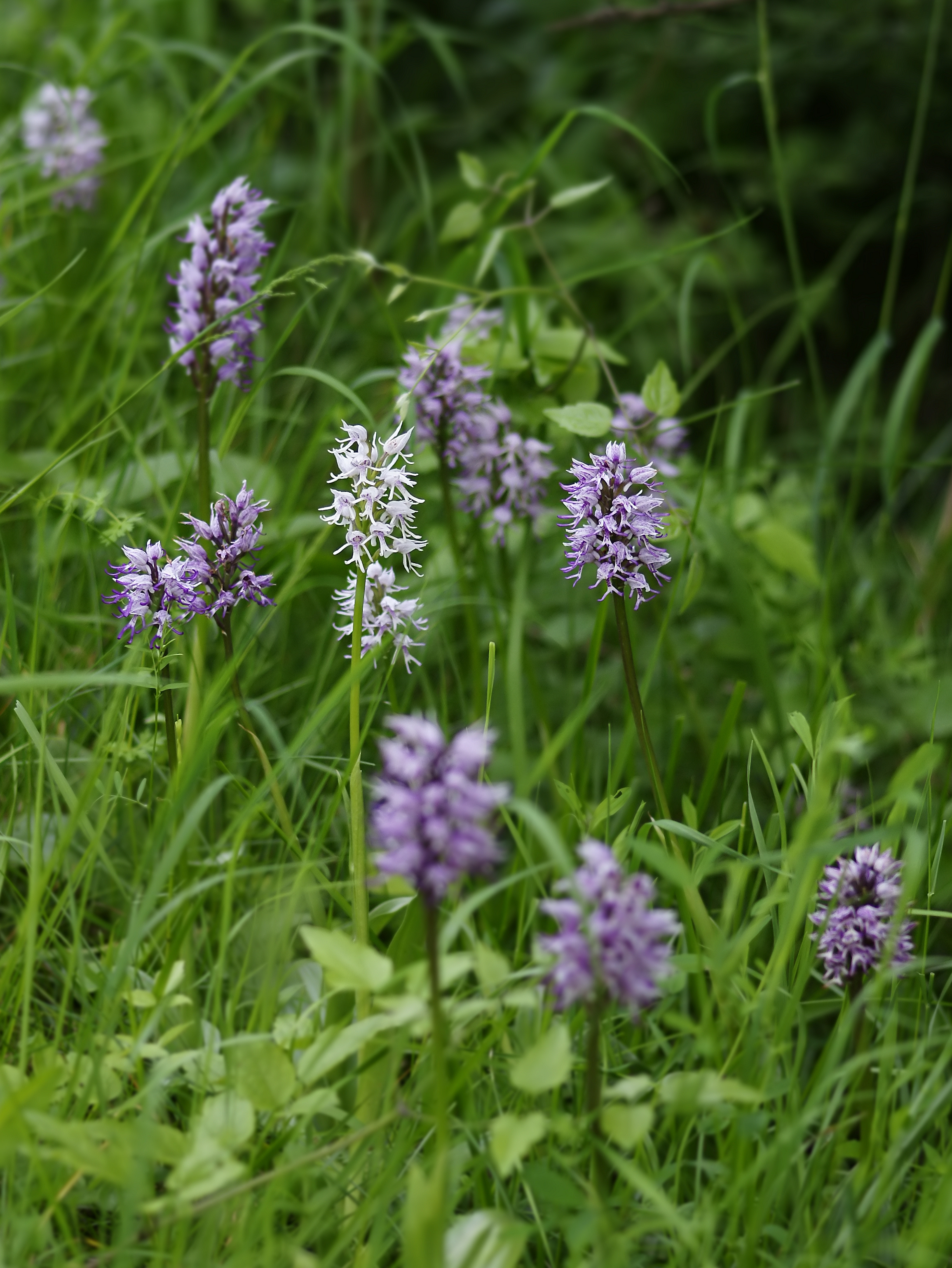 Monkey orchid near Givet, France. Approximate coordinates within a 5 km radius.